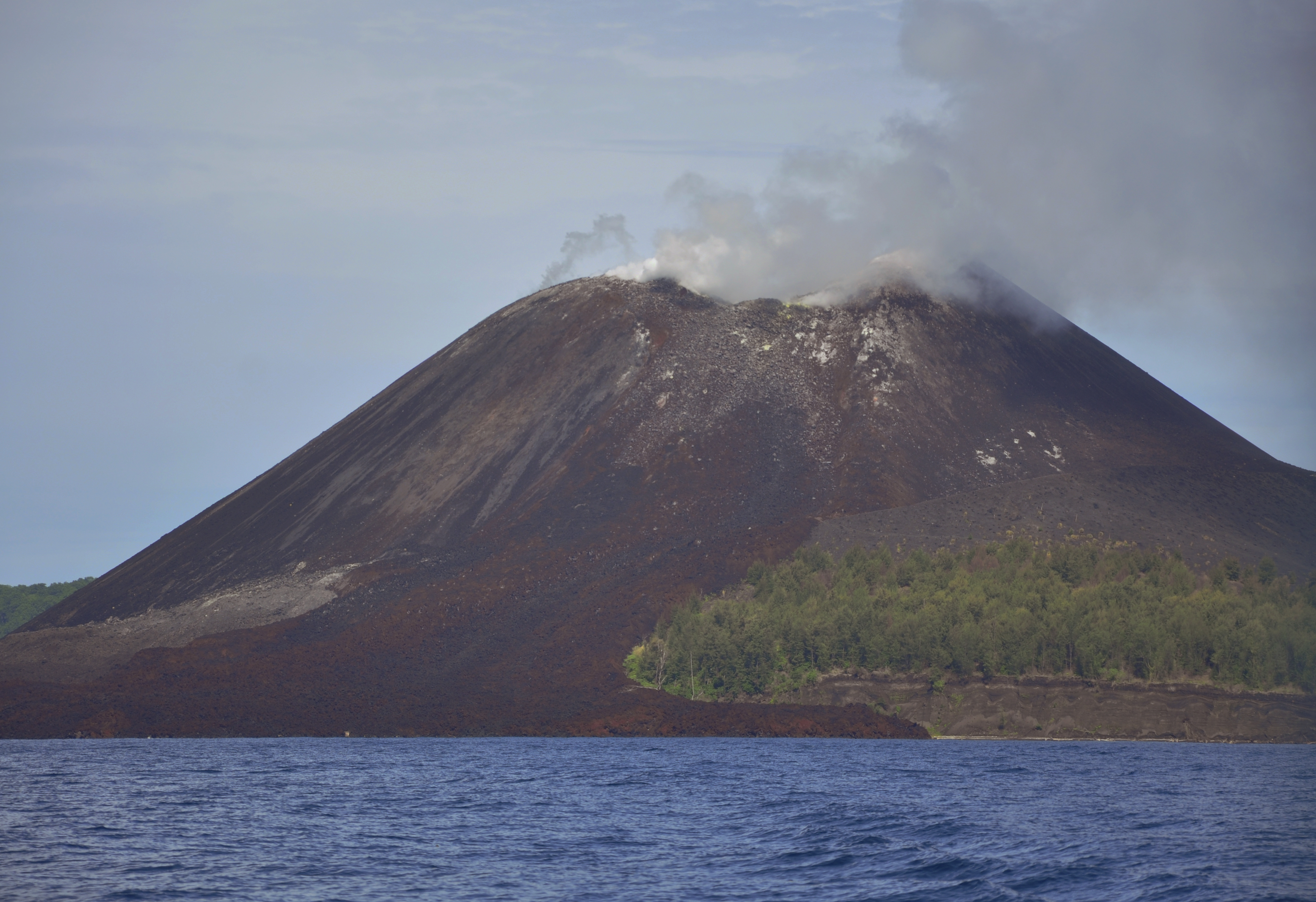 Anak Krakatau, january 2016